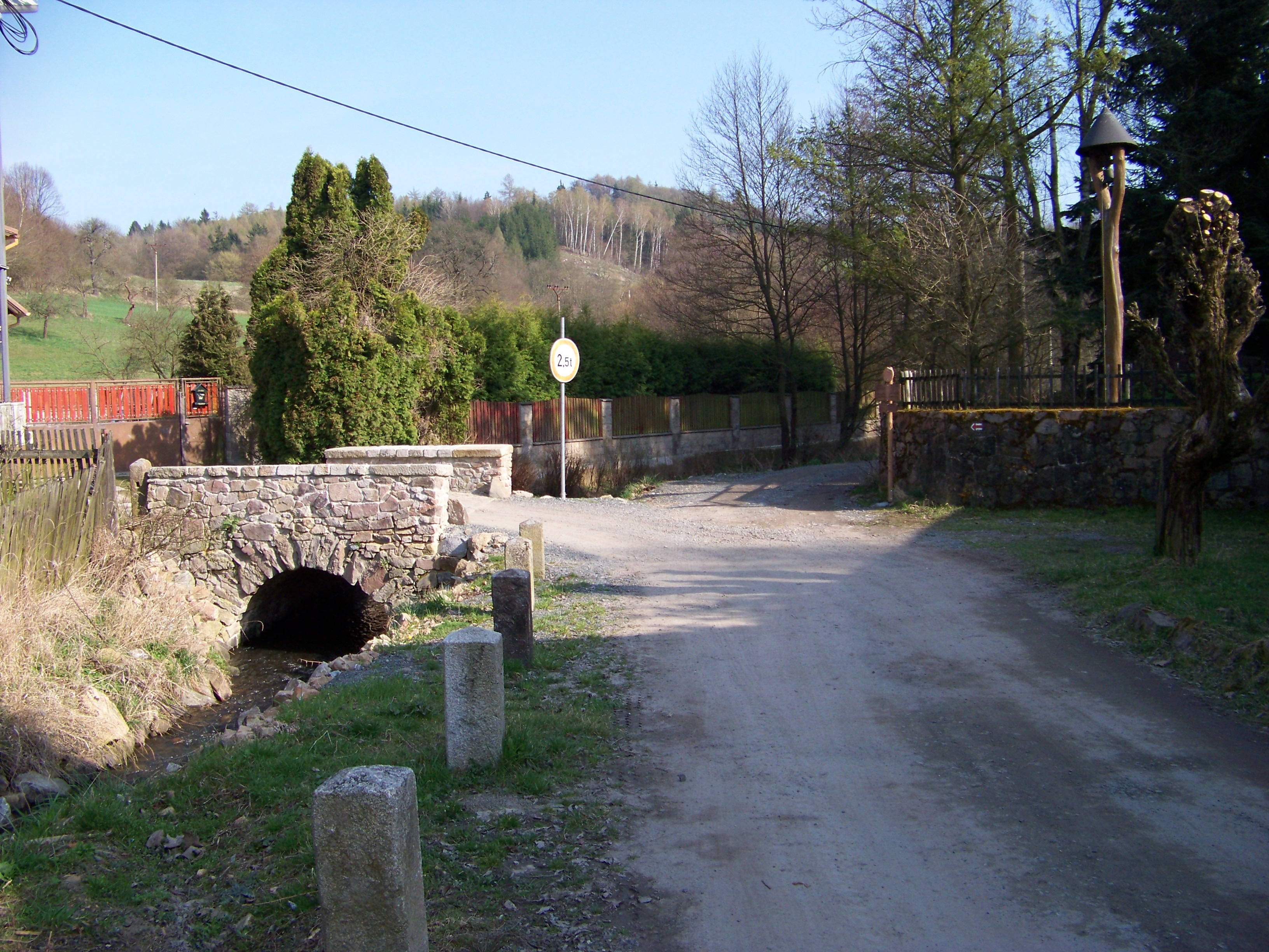 Velké Popovice-Mokřany, Prague-East District, Central Bohemian Region, Czech Republic. A bridge over the Mokřany Creek.